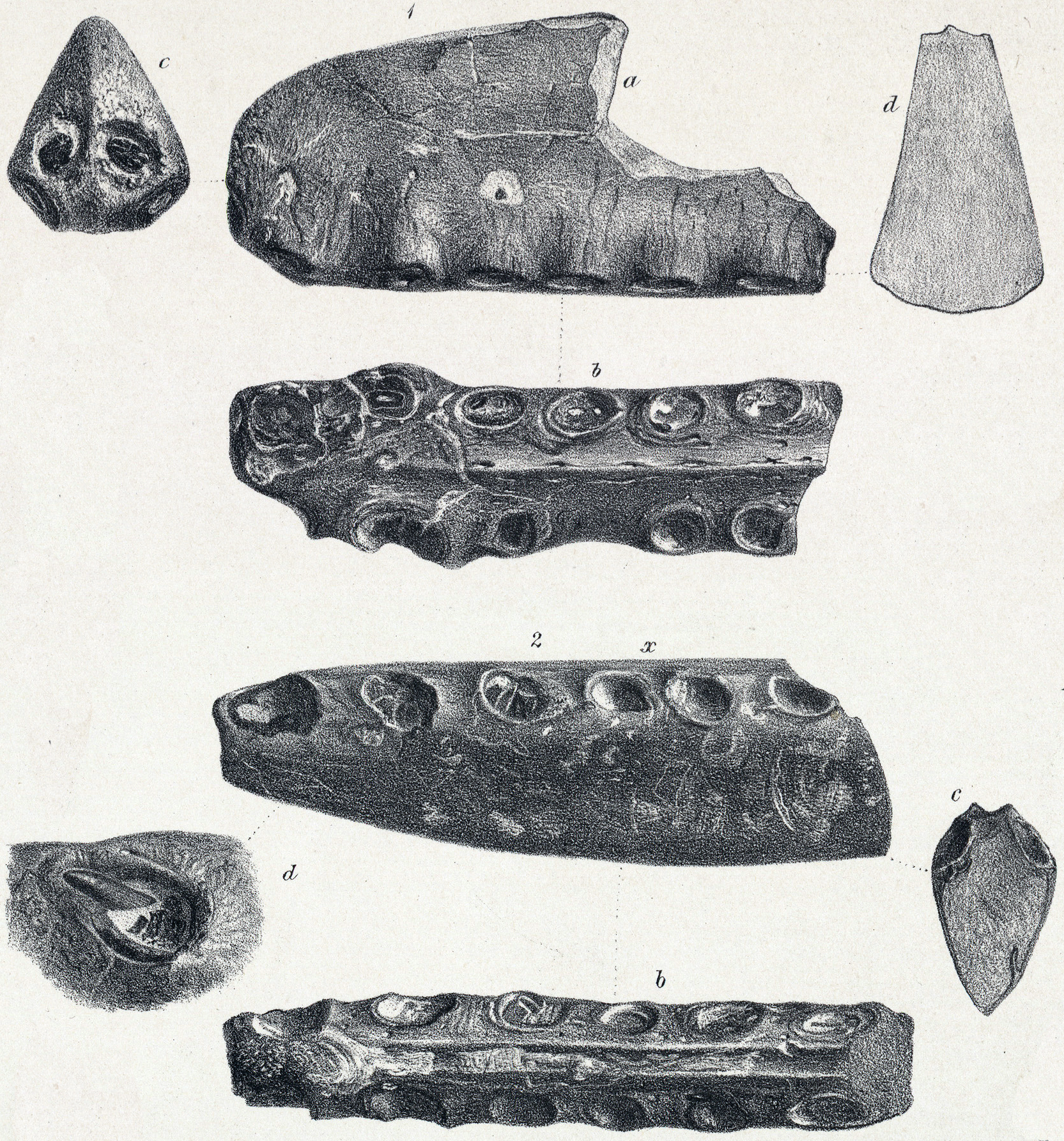 Fig. 1. Fore part of the upper jaw of Pterodactylus (now Coloborhynchus or Ornithocheirus) Sedgwickii: a, side view; b, under view, or palatal surface; c, front view or end; d, section of fractured opposite end. Fig. 2. Fore part of the lower jaw of Pterodactylus Sedgwickii: x, side view; b, upper view; c, section of fractured end; d, one of the sockets, magnified, showing the protruding apex of a young successional tooth. All the foregoing figures are of the natural size, and from specimens in the Woodwardian Museum of the University of Cambridge; they were obtained from the Upper Green-sand (Neocomian), near that town.